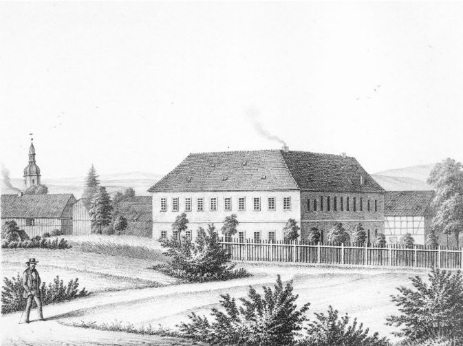 manor Posseck, Saxony in its estate of 1859